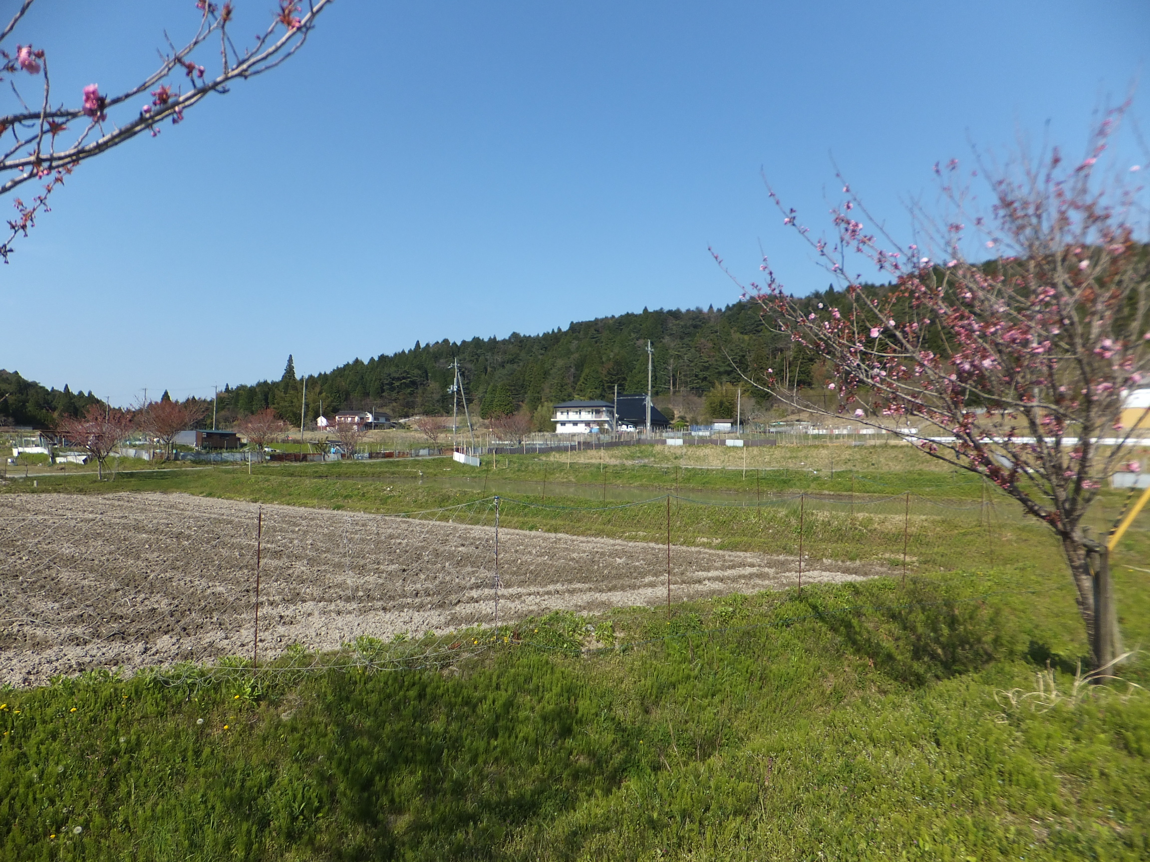 Scenery in Eitakuji, Sanda City, Hyogo Prefecture, Japan